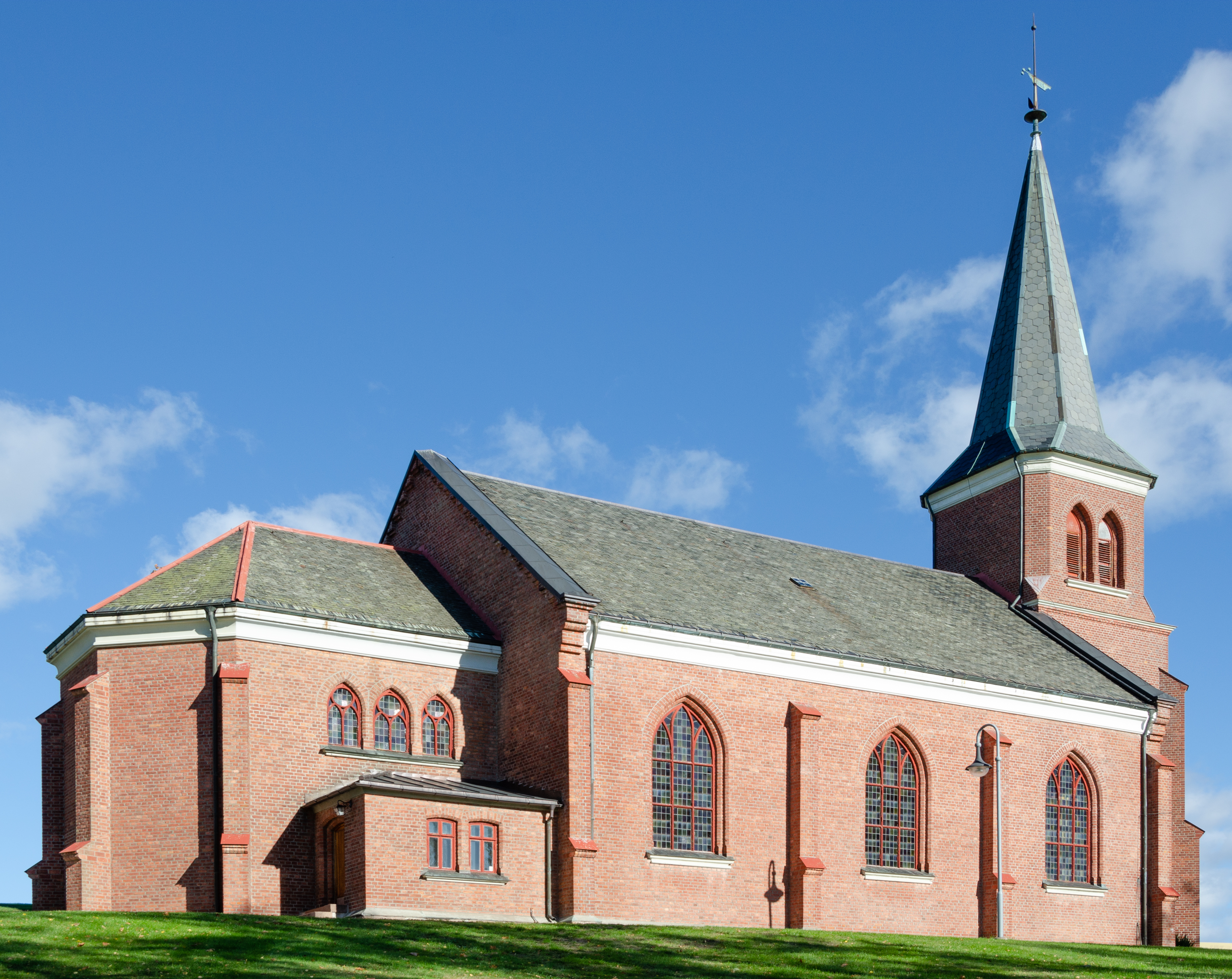 Skoger church, built in 1885.